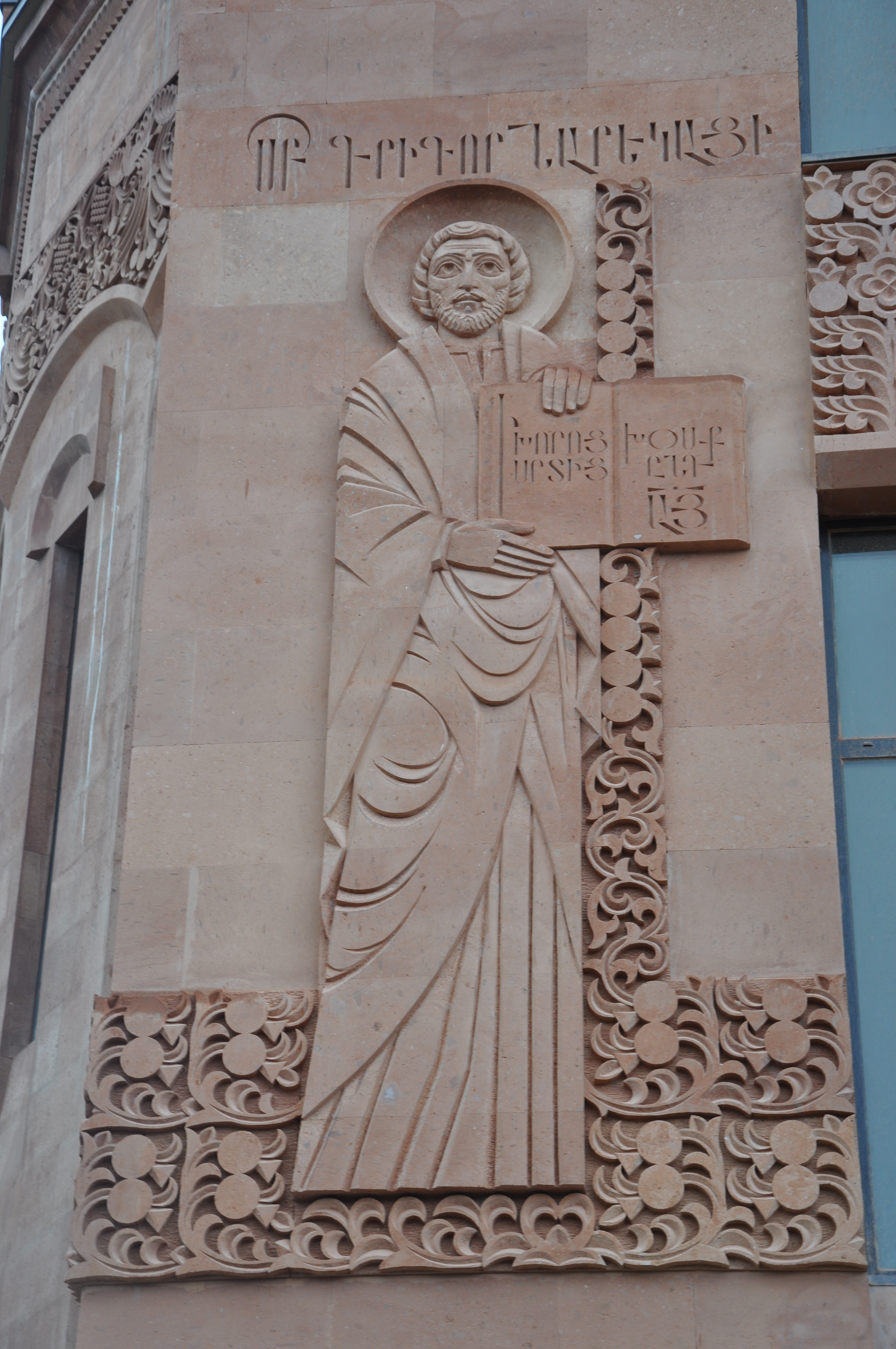 Holy Transfiguration Cathedral of Armenian Apostolic church in Moscow.